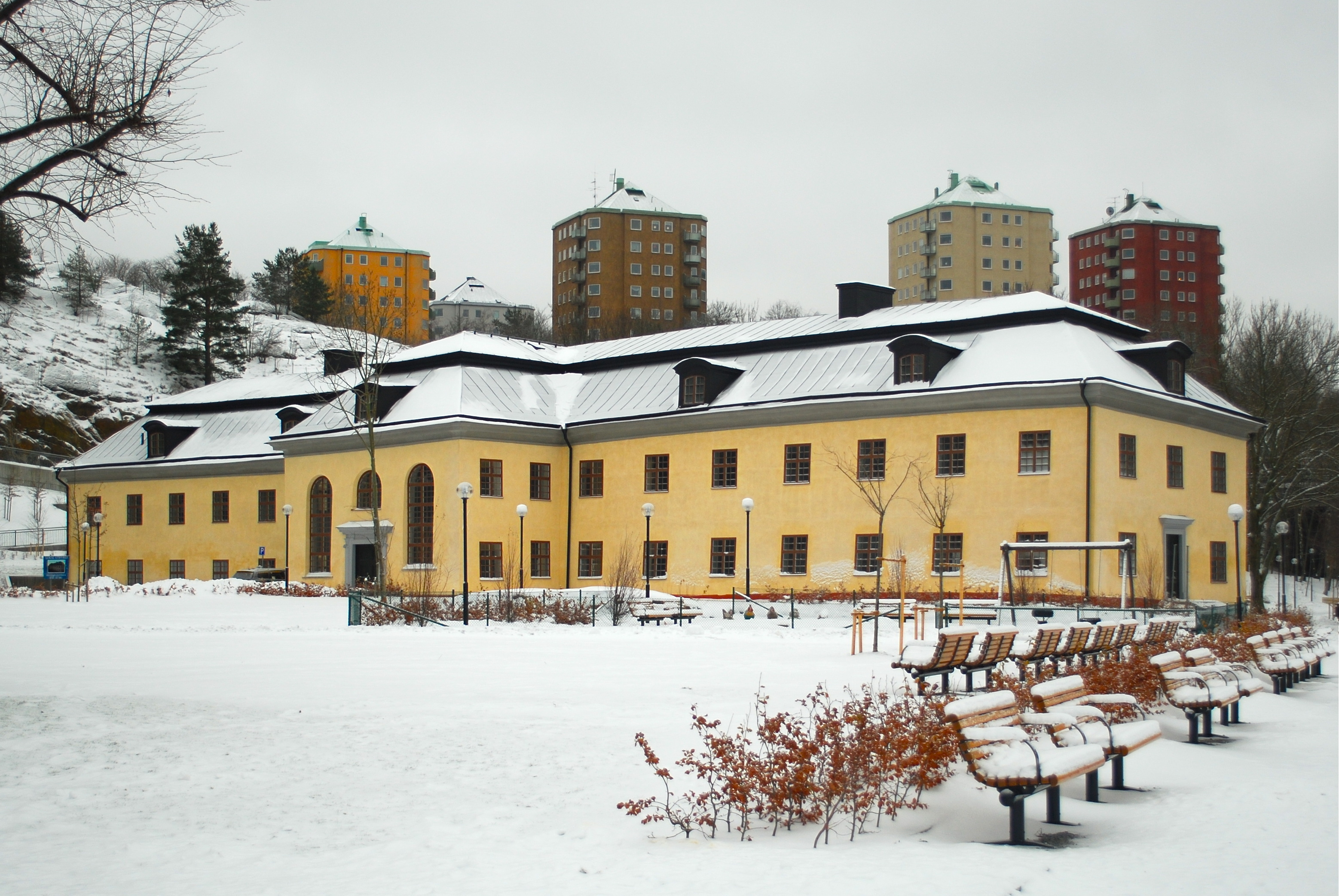 Danviks hospital december 2010.